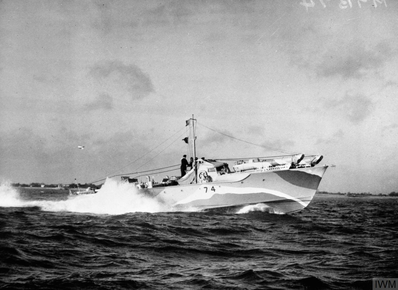 MTB74 under way at speed, coastal waters, as converted for St Nazaire raid.